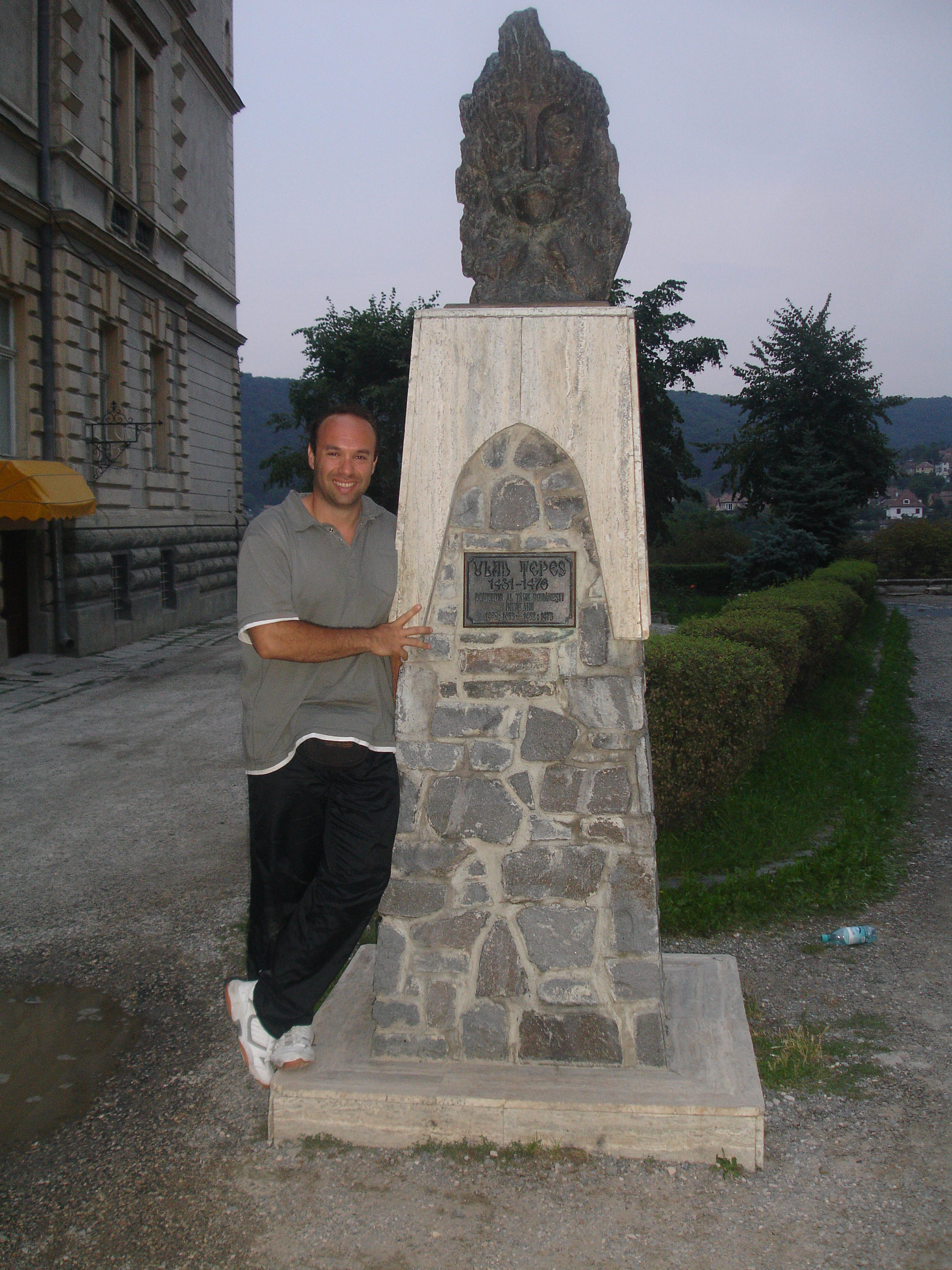 Nils Oliveto at Segesvár (Sighişoara)